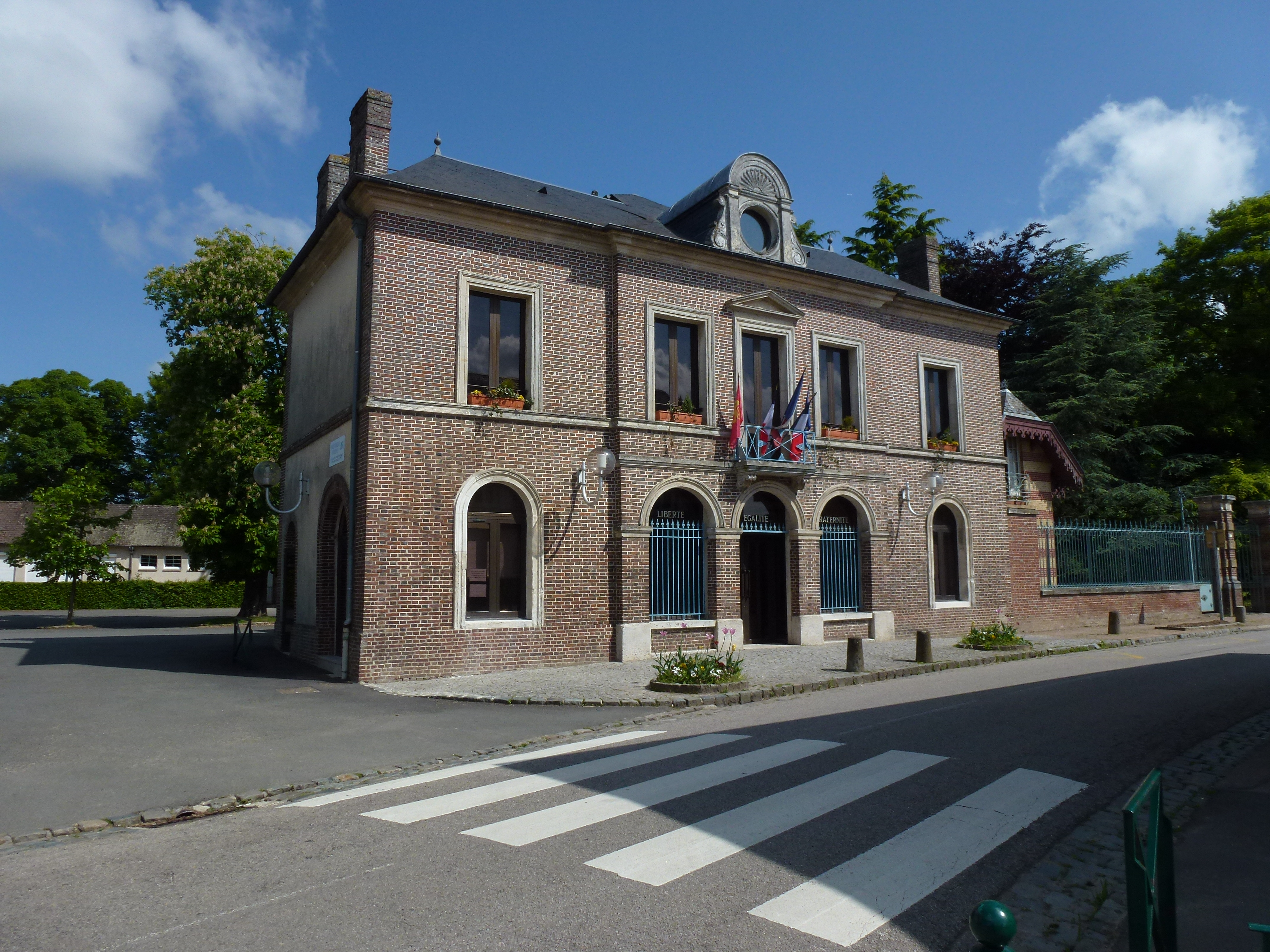 Le Gros-Theil (Eure, Fr) mairie